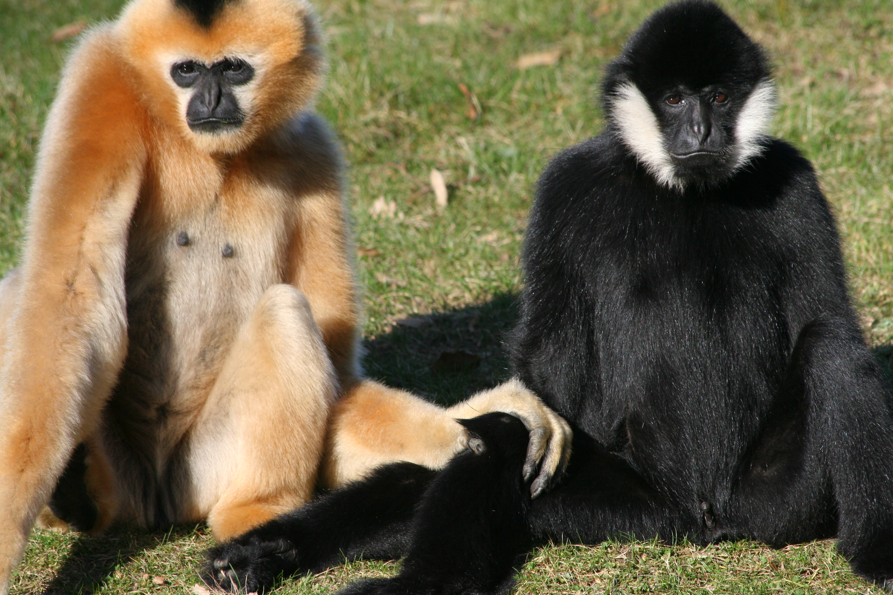 Nomascus leucogenys Planckendael, Mechelen (Belgium) Please feel free to take a look at more of my monkey & primate pictures, or take a look at my "all creatures great & small"-collection. All photos are free to use, but I would appreciate credits :). All it takes is a link back to this page and/or a tag 'jinterwas' on your picture. I´d also love to see the result of your creativity, so a link to your photo (or website you use this picture on) or a small size sample in the comment section would be great :)) !! Please do not abuse the CC-licence by claiming anything in my photostream as your own, nor to sell it on a compilation CD and/or internet. Thanks for looking at and/or using anything on my photostream. Any comment is much appreciated :) !!